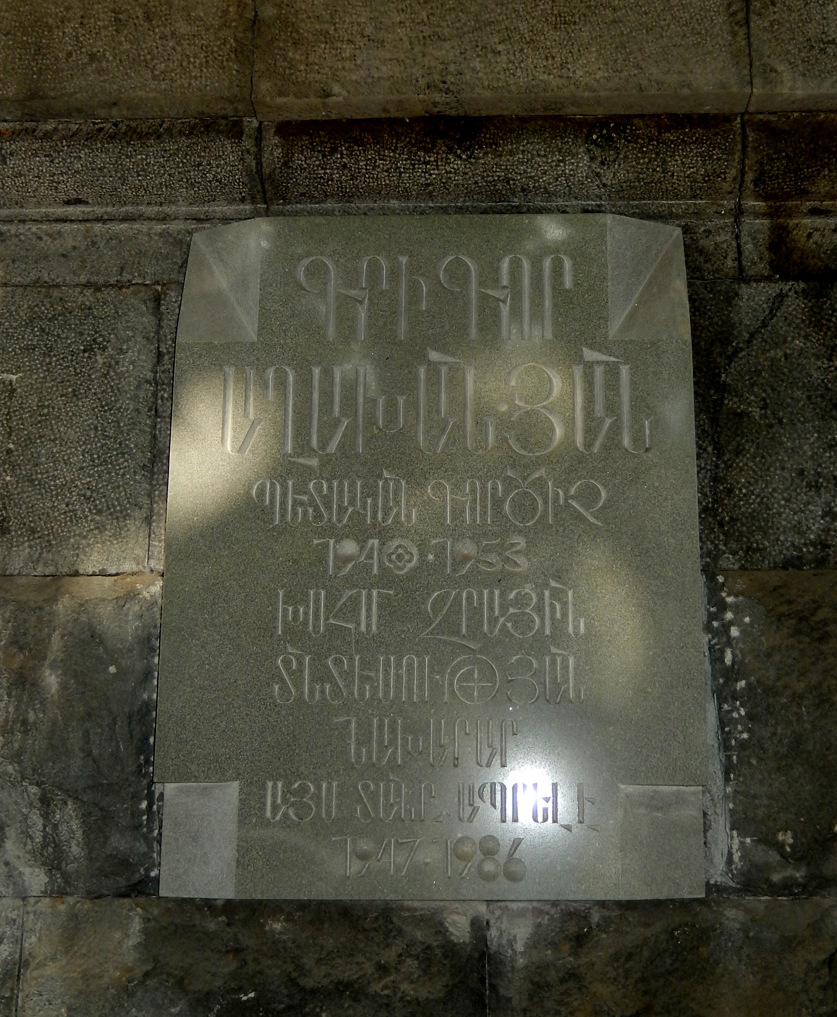 Grigor Aghakhanyan's plaque